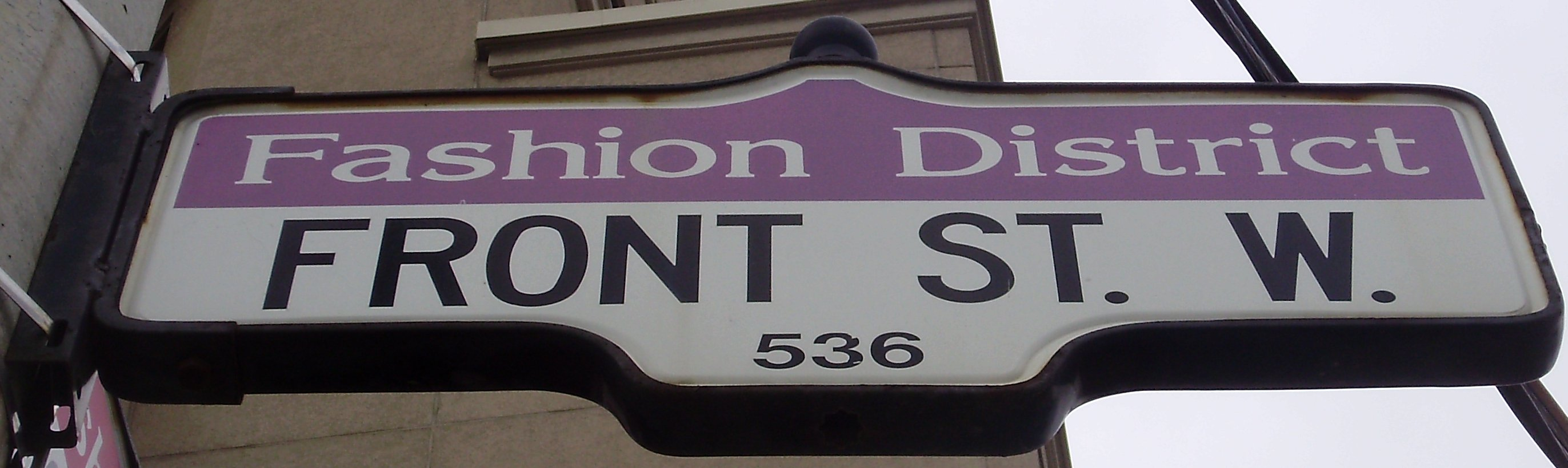 A street sign for Front Street West, at its intersection with Portland Street just short of its western terminus at Bathurst Street, in the Fashion District of Toronto, Ontario, Canada.